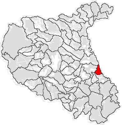 Limits of the Commune of Bilieşti